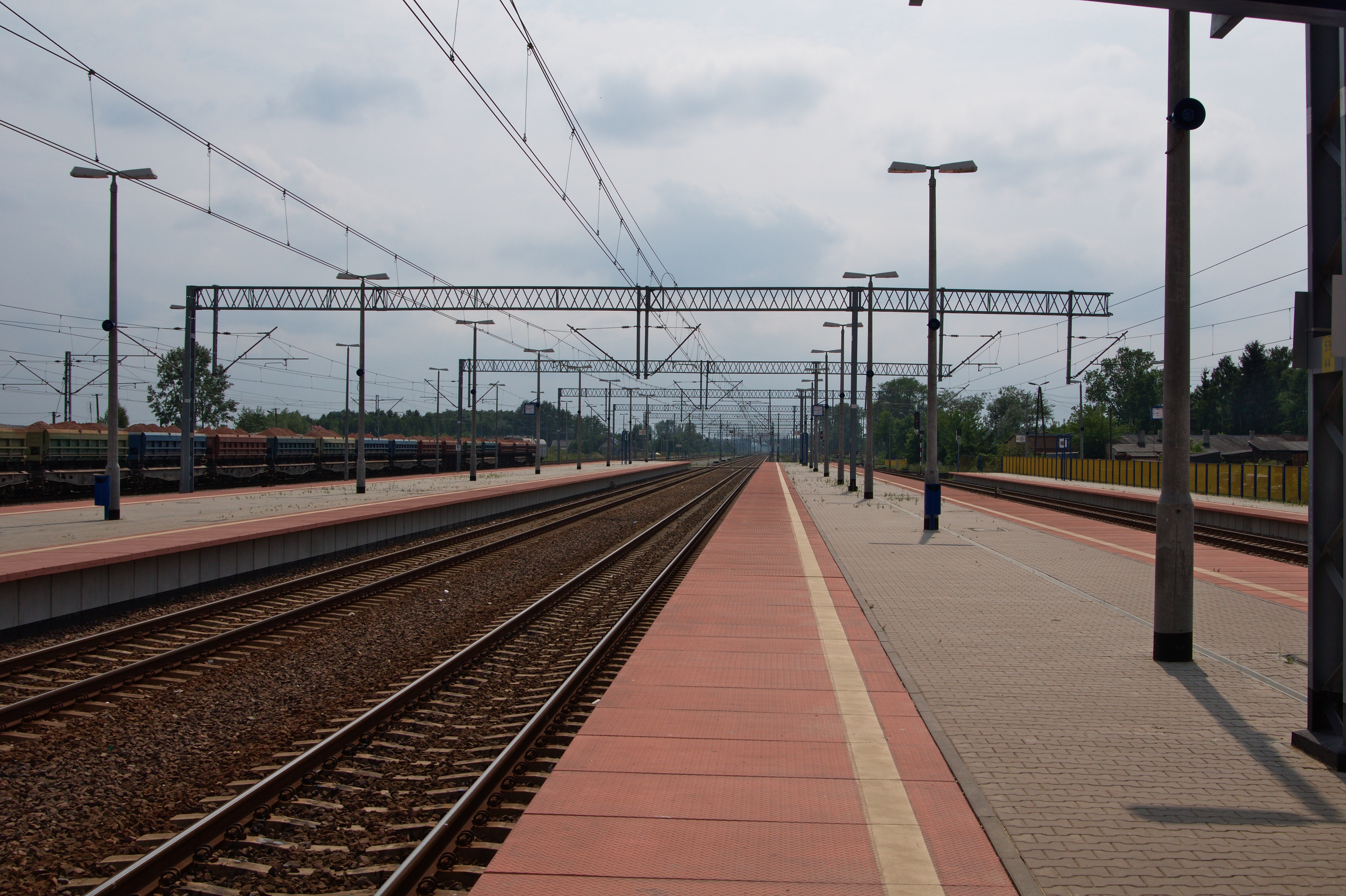 Nasielsk railway station south view.